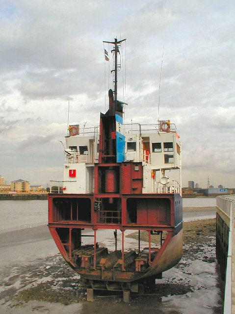 "A Slice of Reality" This work, by Richard Wilson stood alongside the Dome.